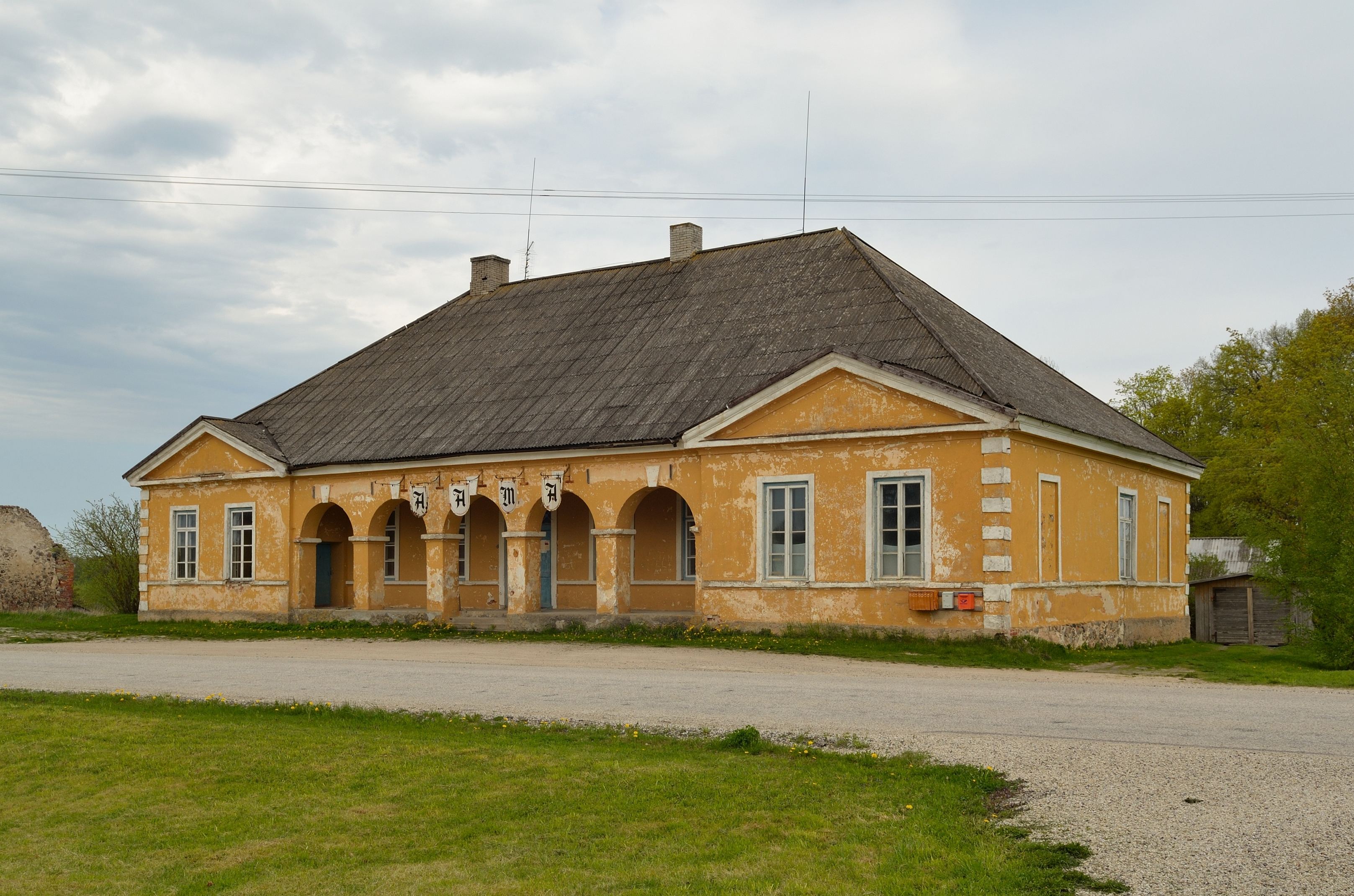 Torma post station main building